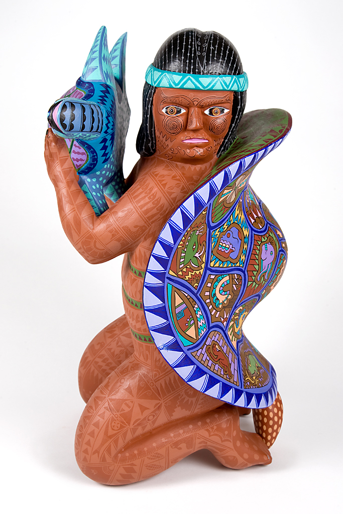 Tortoise nahual by Jacobo Angeles Ojedo of San Martin, Oaxaca